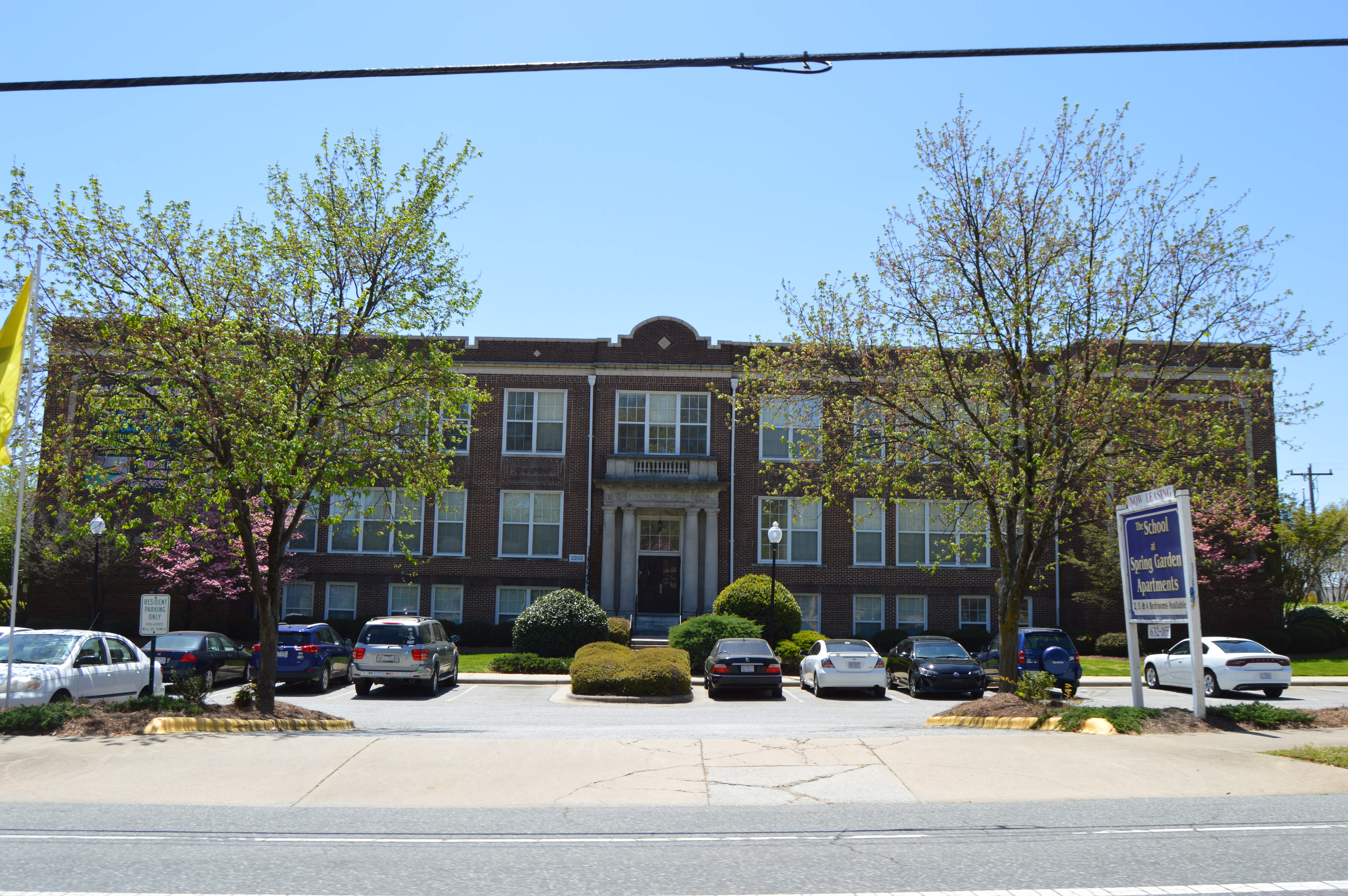 Front of the former Pomona High School, located at 2021 Spring Garden Street in Greensboro, North Carolina, United States. Built in 1920, it is listed on the National Register of Historic Places.